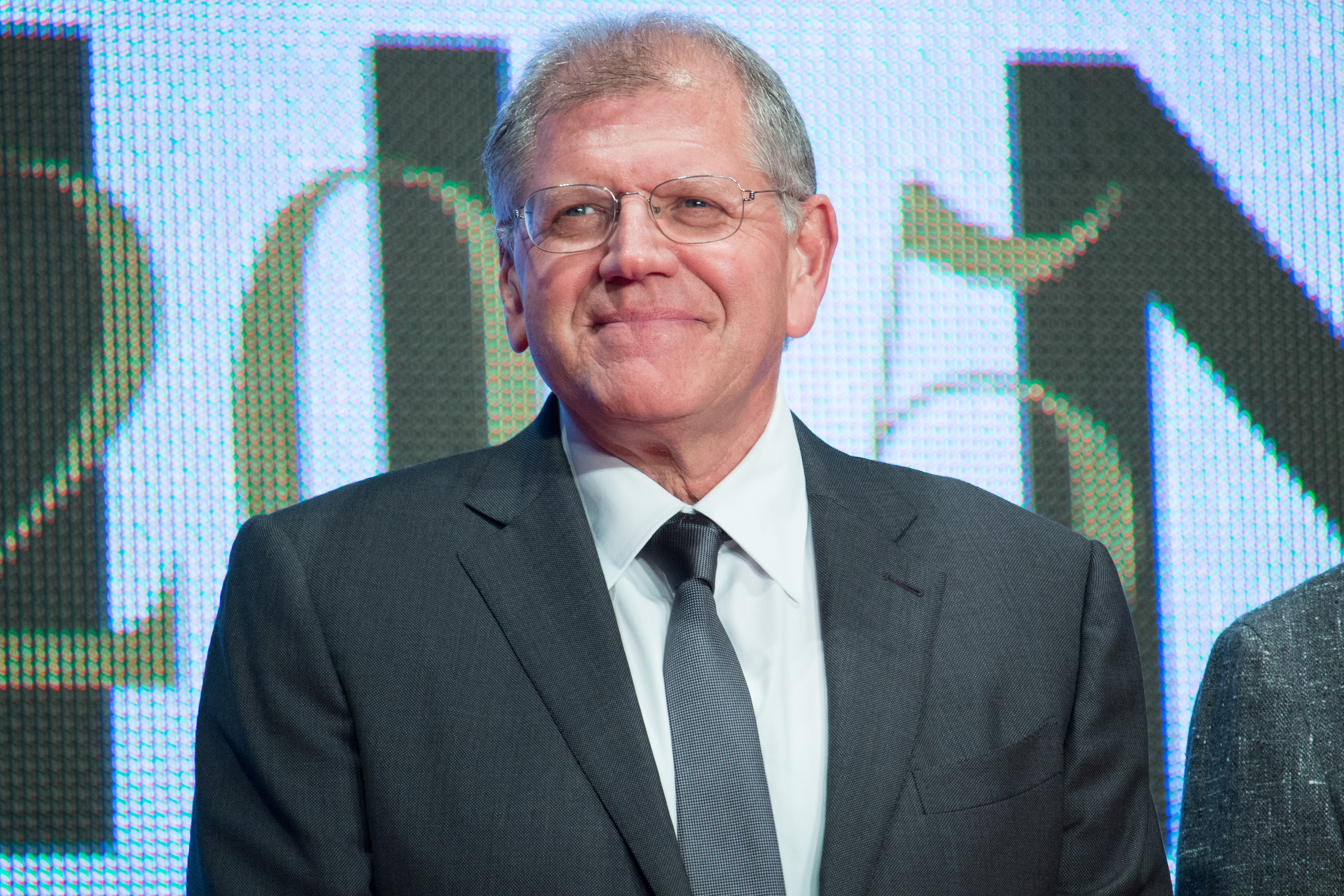 Robert Zemeckis "The Walk" at Opening Ceremony of the 28th Tokyo International Film Festival